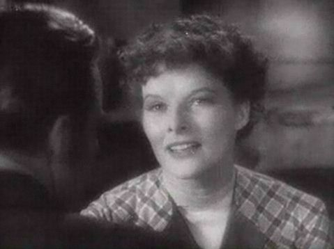 Screenshot of Katharine Hepburn from the trailer for the film Little Women